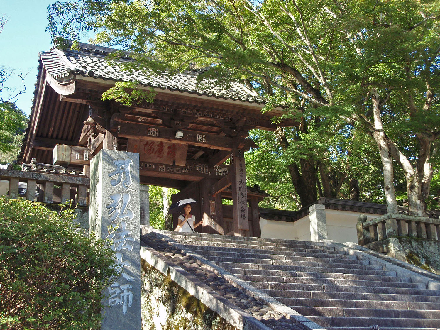 Gate of Shuzenji Temple in Izu, Shizuoka Prefecture, Japan.